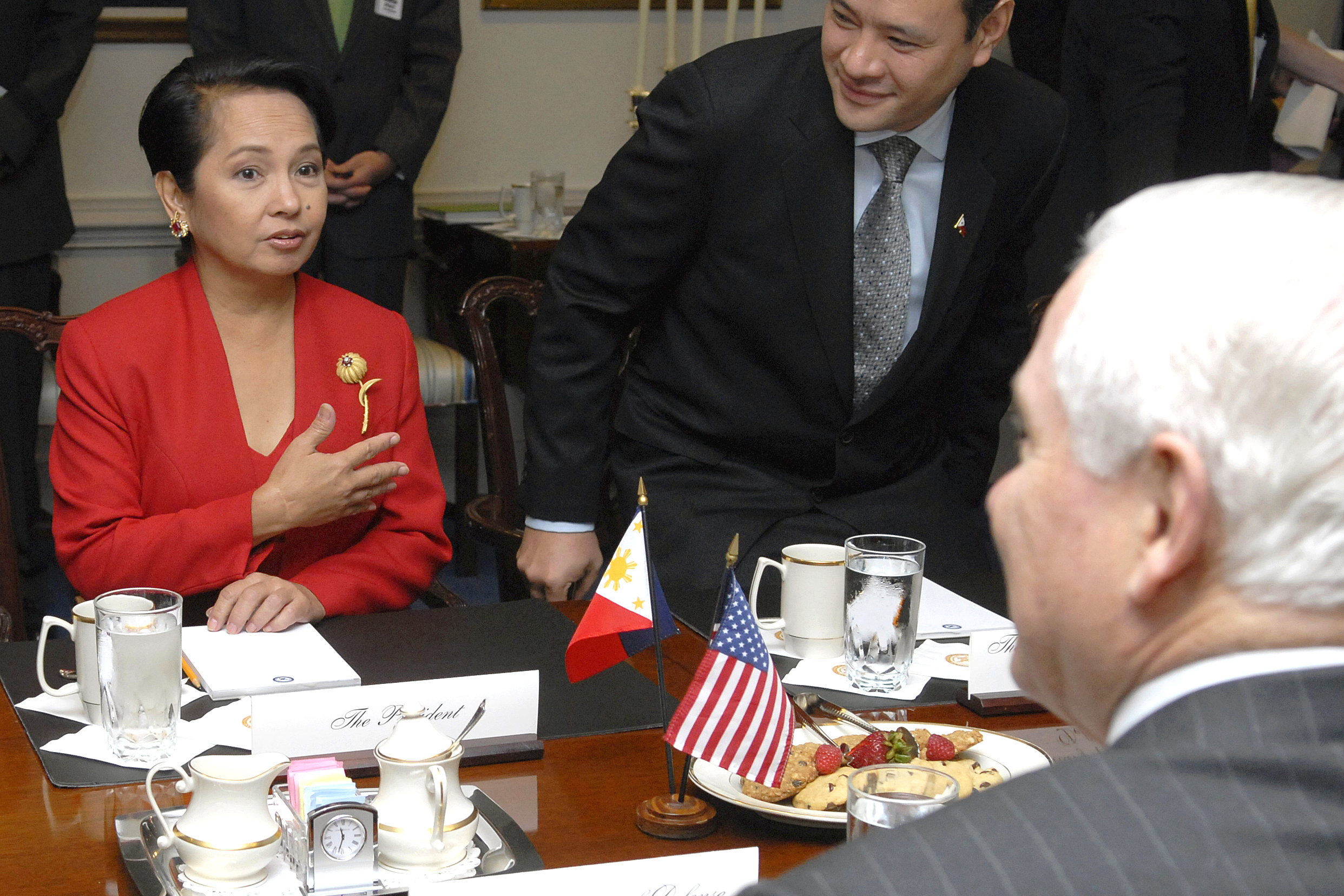 Philippine President Gloria Arroyo, back left, talks with U.S. Defense Secretary Robert M. Gates, foreground right, during a meeting in the Pentagon, June 24, 2008.